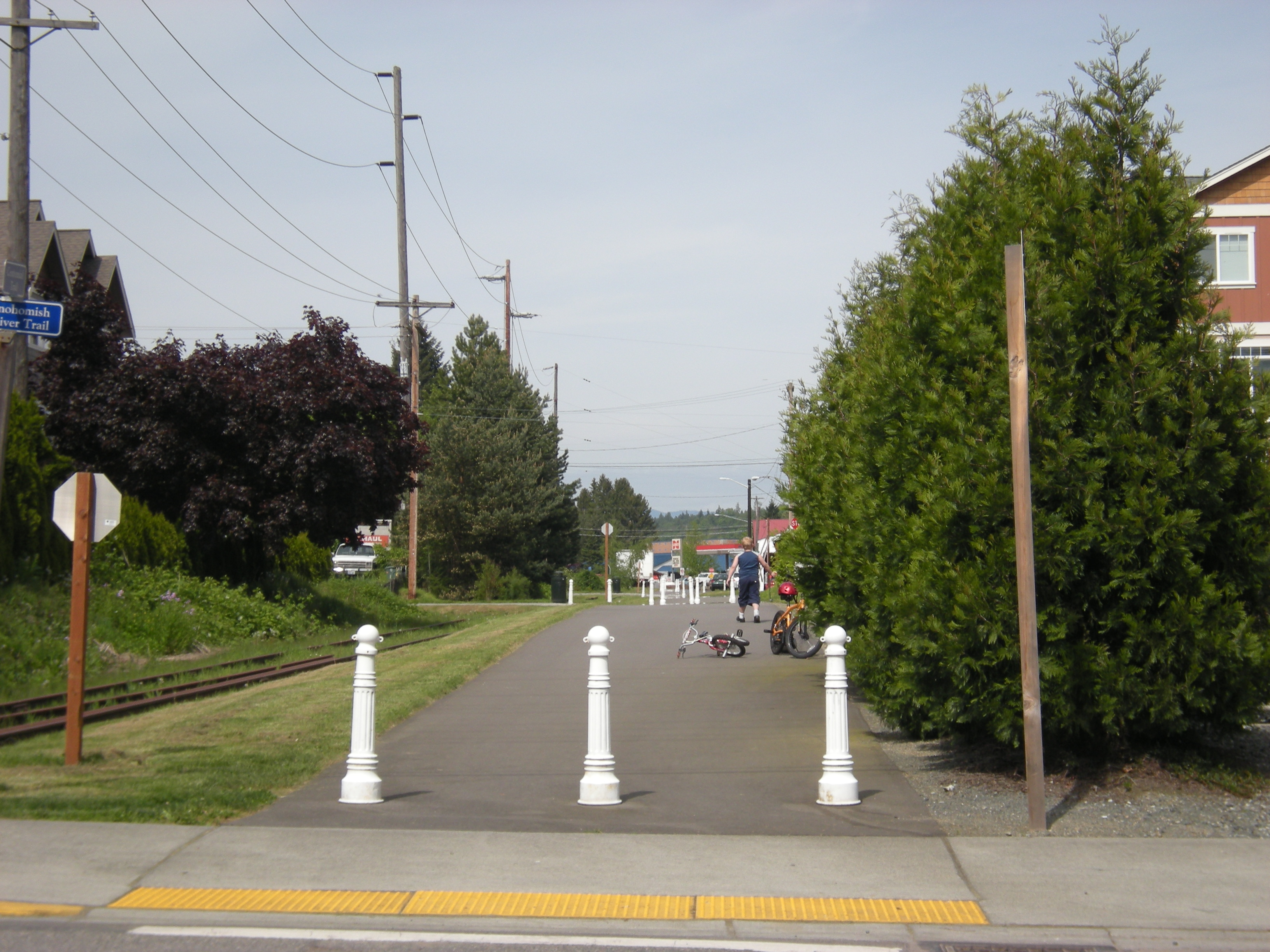 Start of the Centennial Trail, Snohomish, Washington, following former Burlington Northern tracks. Abandoned tracks can be seen to the left of the trail.